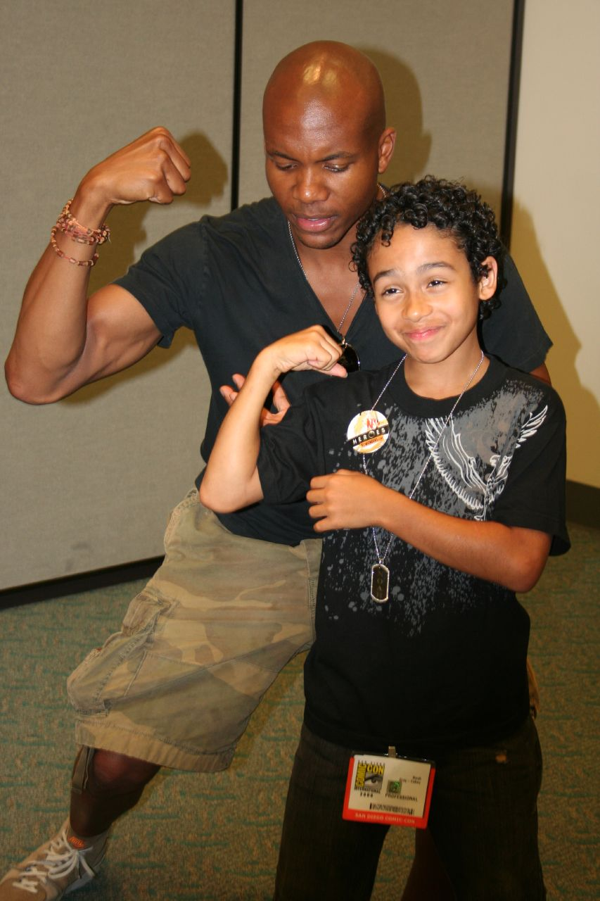 Leonard Roberts (back) with Noah Gray-Cabey. Both are American actors currently appearing on the TV series "Heroes"